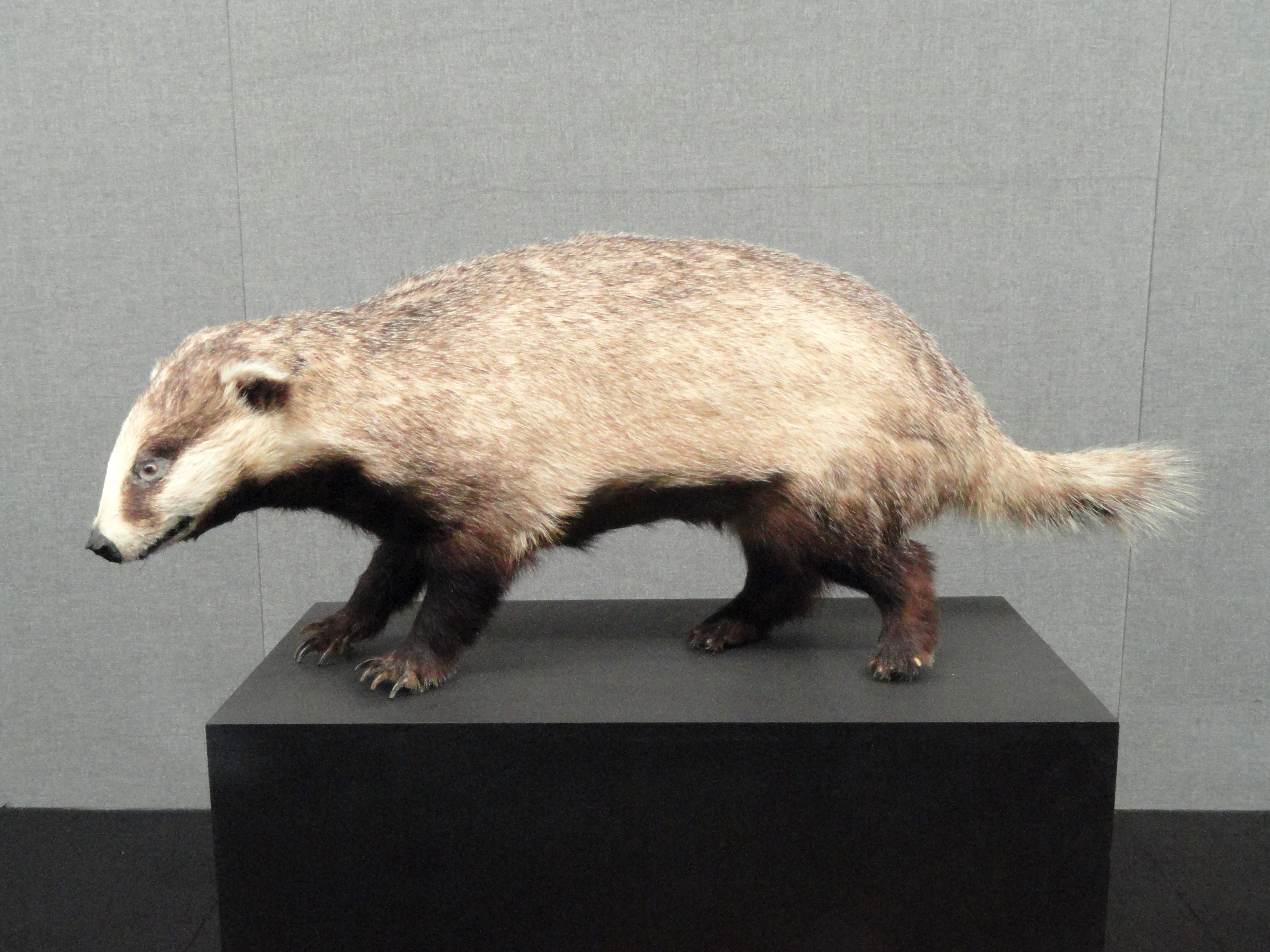 Taxidermy exhibit in the Kunming Natural History Museum of Zoology (昆明动物博物馆), Kunming, Yunnan, China.